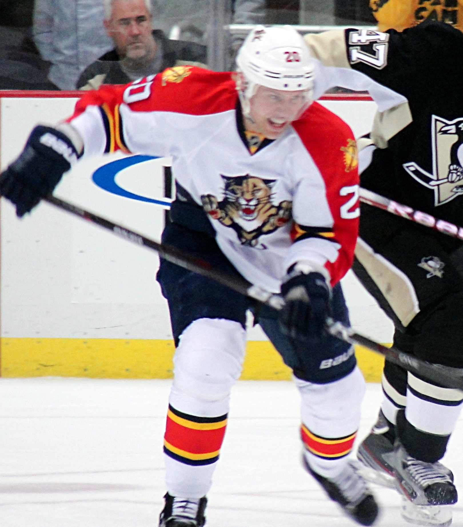 Florida Panthers forward Sean Bergenheim skates against the Pittsburgh Penguins, March 9, 2012 at Consol Energy Center in Pittsburgh, PA.